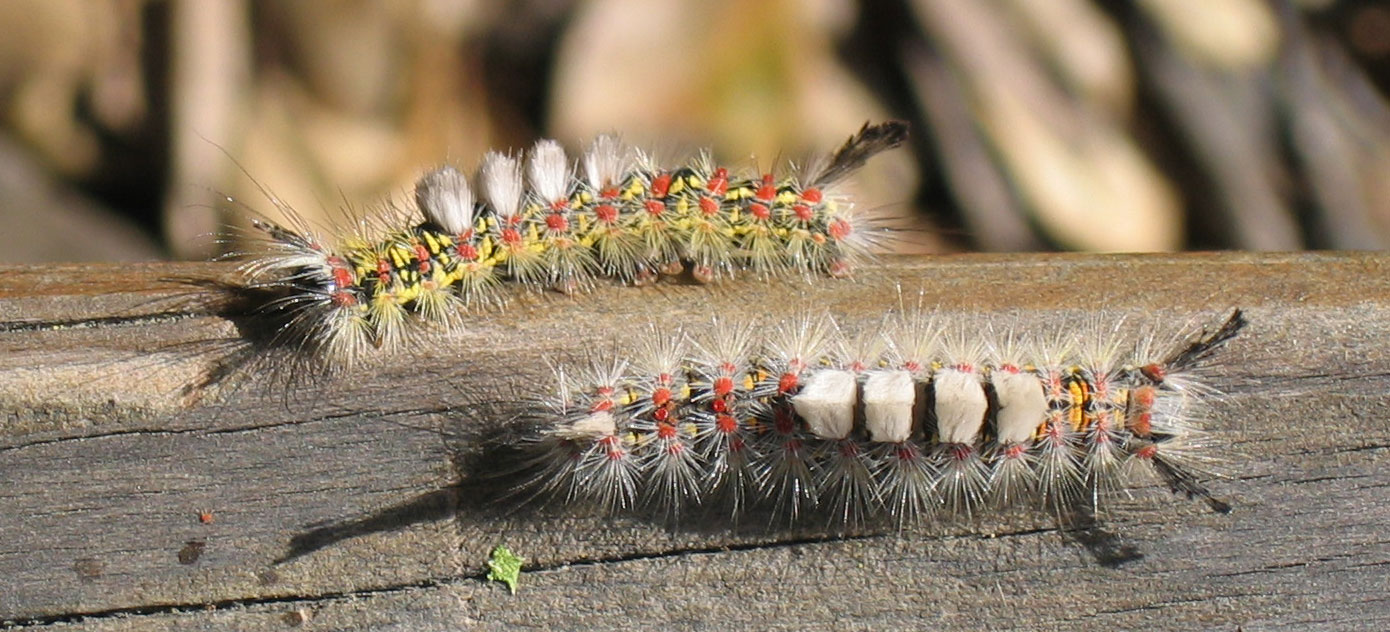 Overhead shot of two western tussock moth caterpillars crawling along the edge of a wooden picnic bench under a coast live oak at Stanford University. (The background is the carpet of dead leaves below.) The upper caterpillar is facing to the camera's left, the lower to the right. More caterpillars are above, eating the green leaves; a fallen fragment is seen here. See Image:TussockLarvae.jpg.